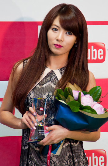 HyunA, from 2011 YouTube Award cermony.